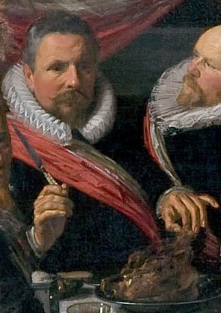 Portrait of Vechter Jansz. van Teffelen in The Banquet of the officers of the Saint George Civic guard in Haarlem in 1616, detail